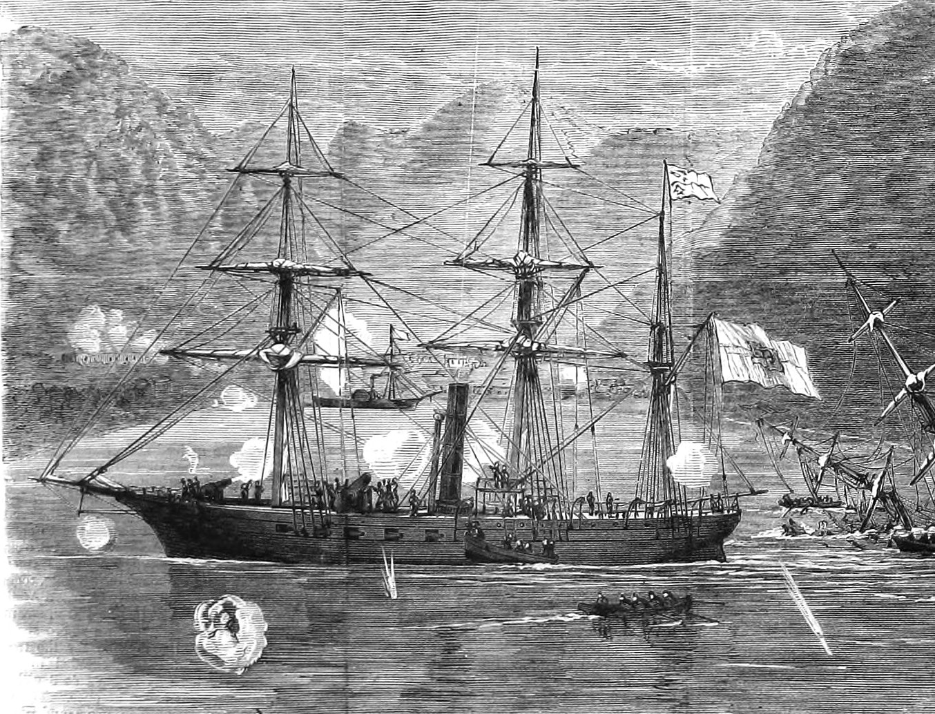 The Haitian corvette Alexandre Petion bombarding Petit Goave, September 20, 1868. Alexandre Petion was originally the United States Navy gunboat USS Galatea, built in New York City in 1863-64.